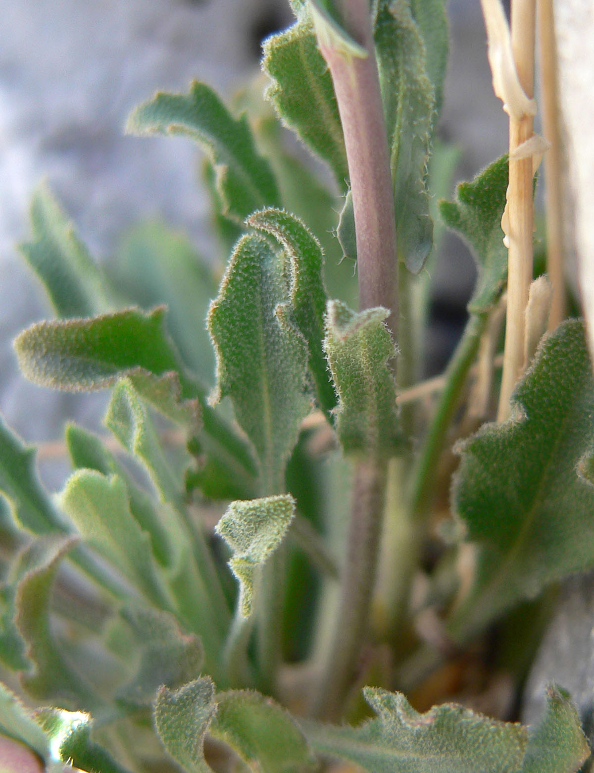 Boechera perennans in an unnamed canyon in the Spring Mountains west of Cheyenne Avenue, Las Vegas, Nevada